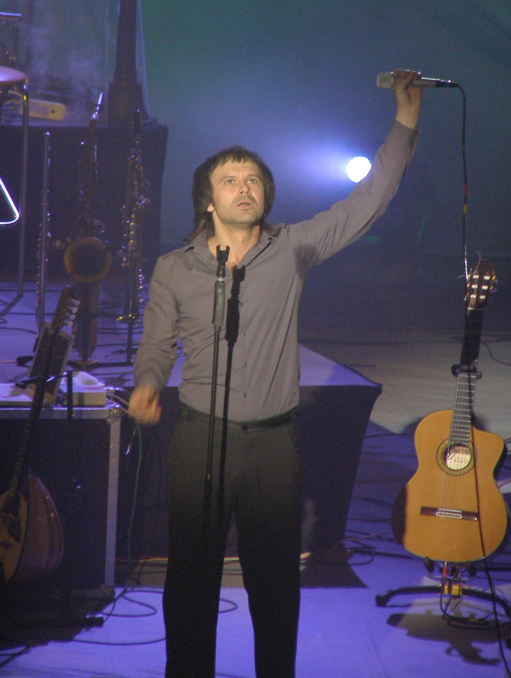 Svyatoslav Vakarchuk at concert in Lviv Theatre of Opera